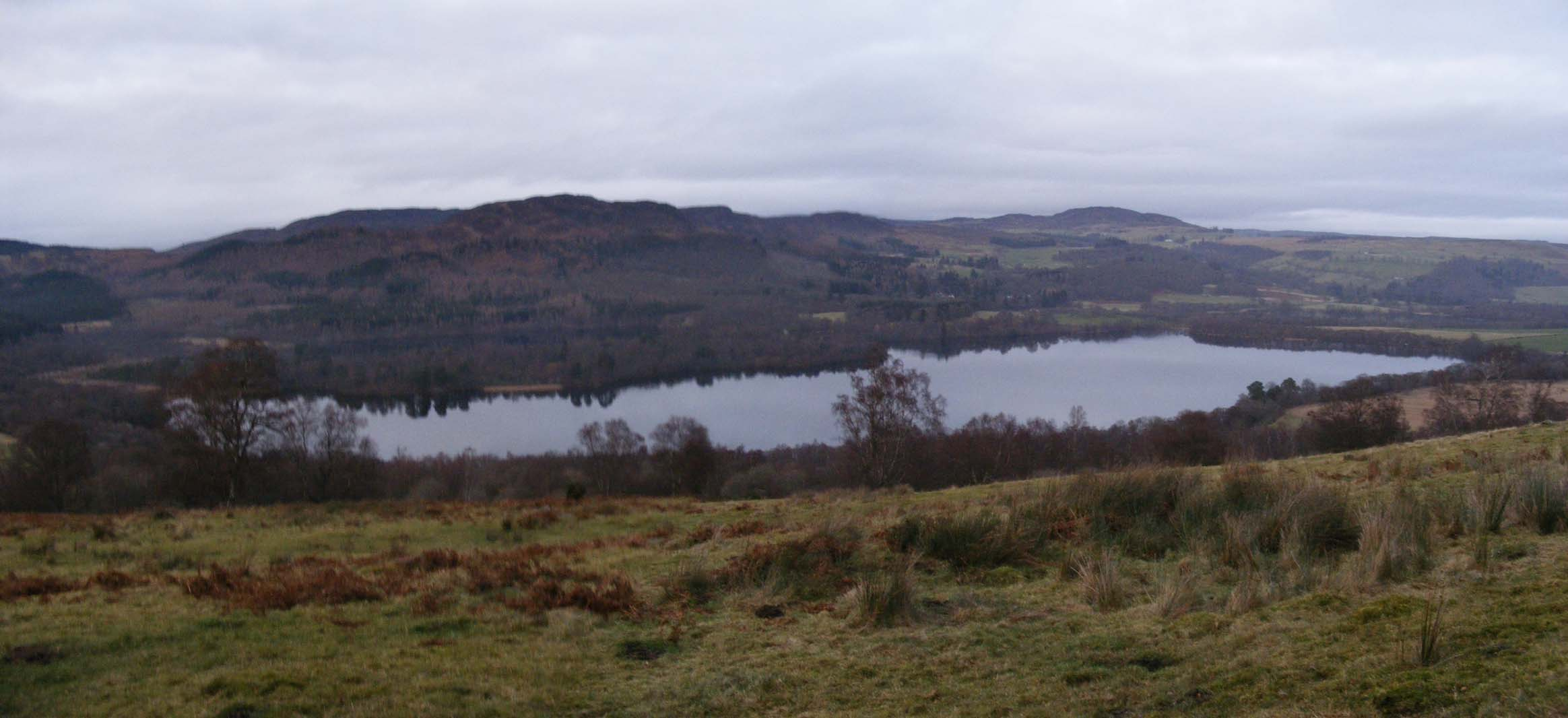 Loch of the Lowes, seen from the slopes of Newtyle Hill to the south